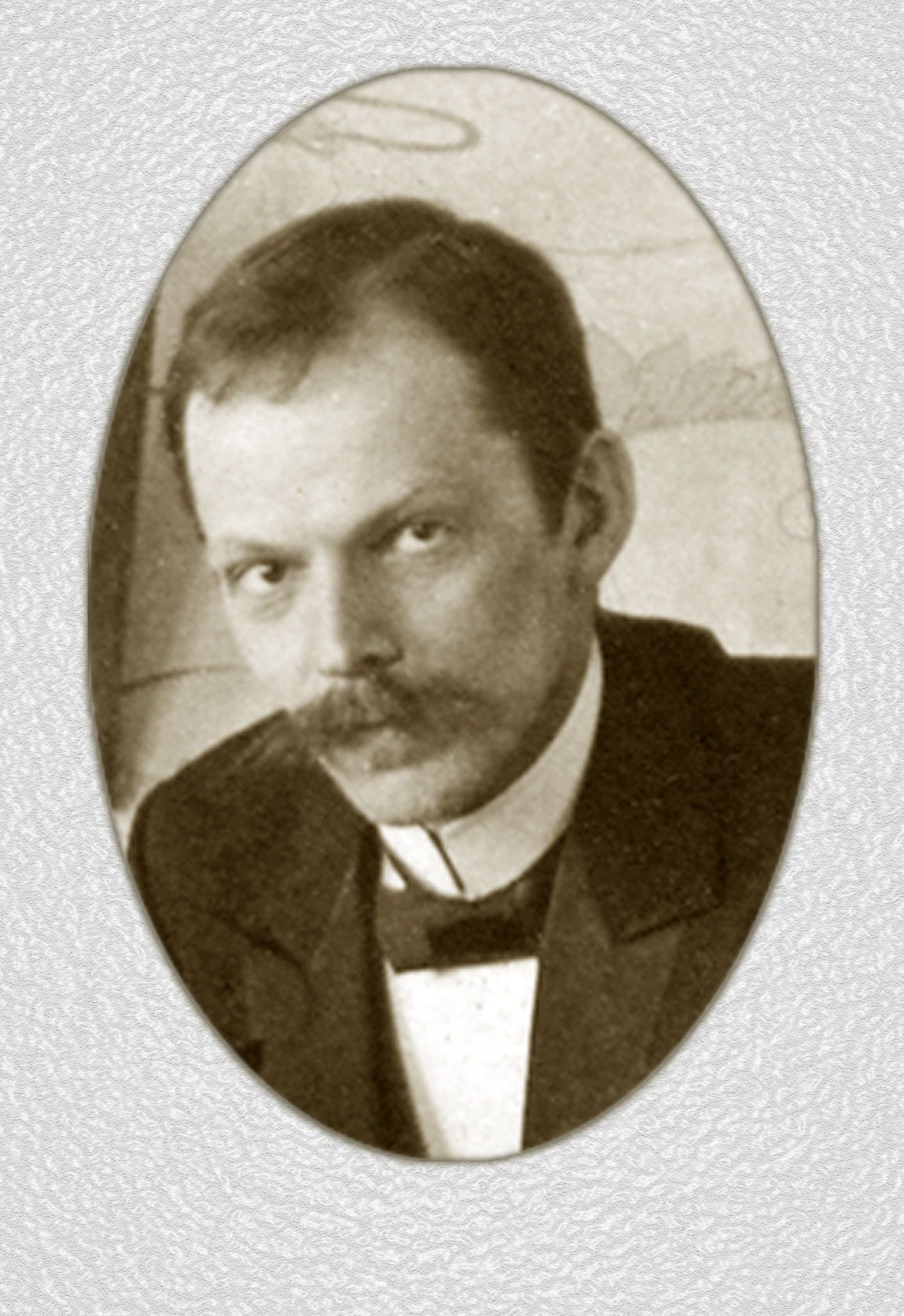 Erich Conrad von Körber